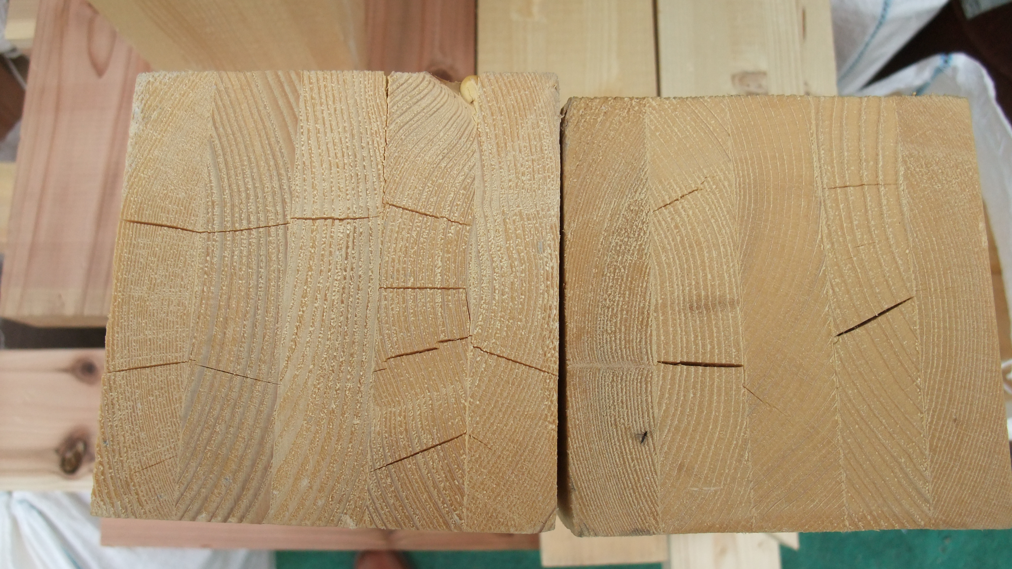 cracked Laminated wood